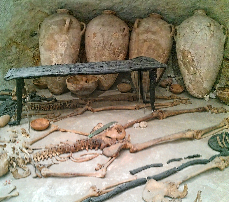 The Jericho Tomb - British Museum